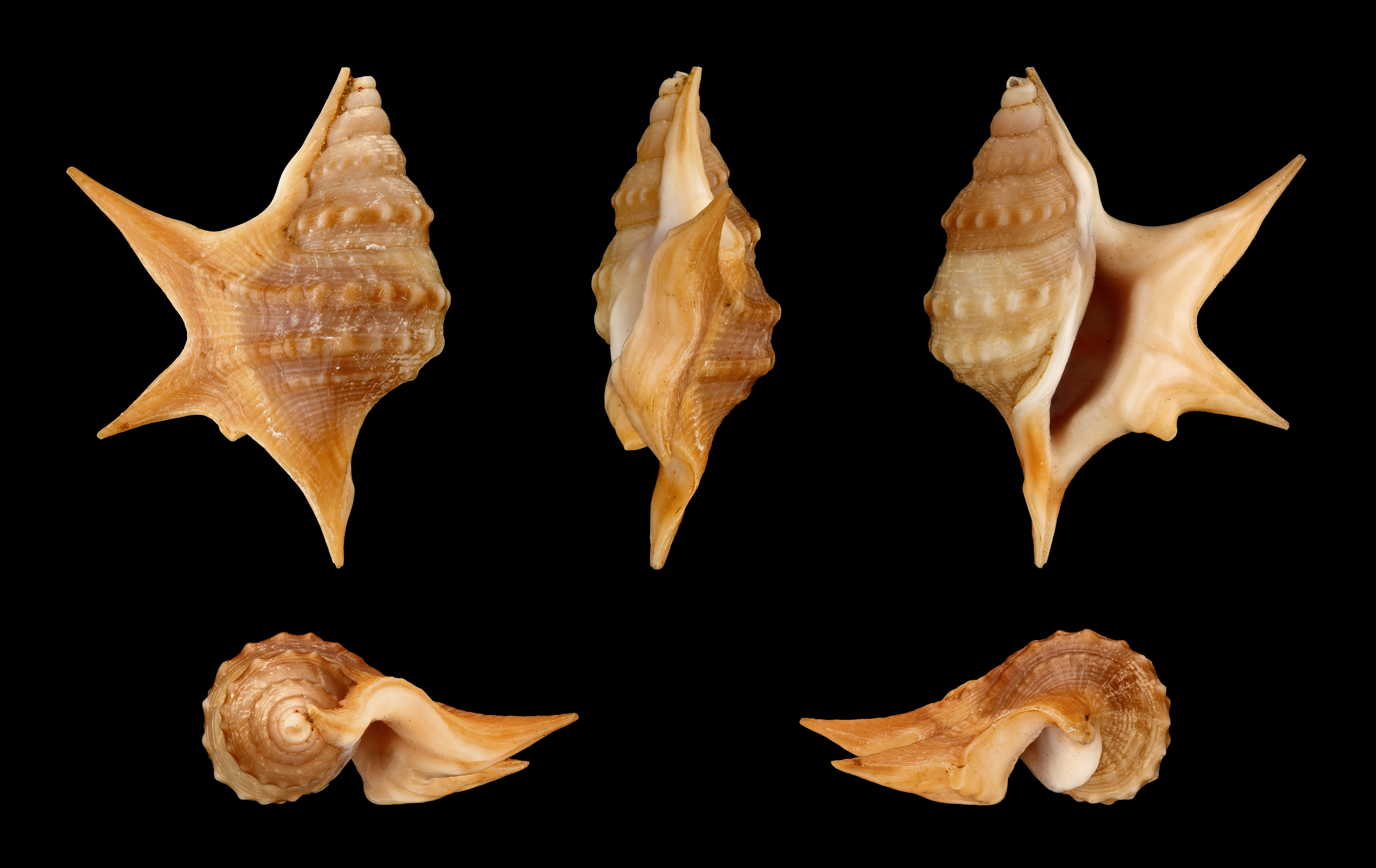 Senegal Pelican's Foot; Length 1.9 cm; Originating from Baia Farta, Angola; Shell of own collection, therefore not geocoded. Dorsal, lateral (right side), ventral, back, and front view.